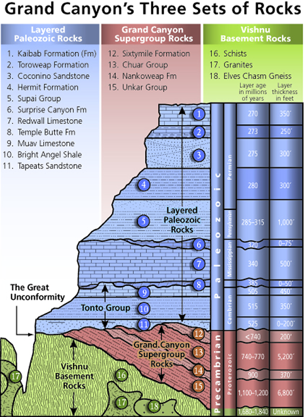 Stratigraphy of the Grand Canyon